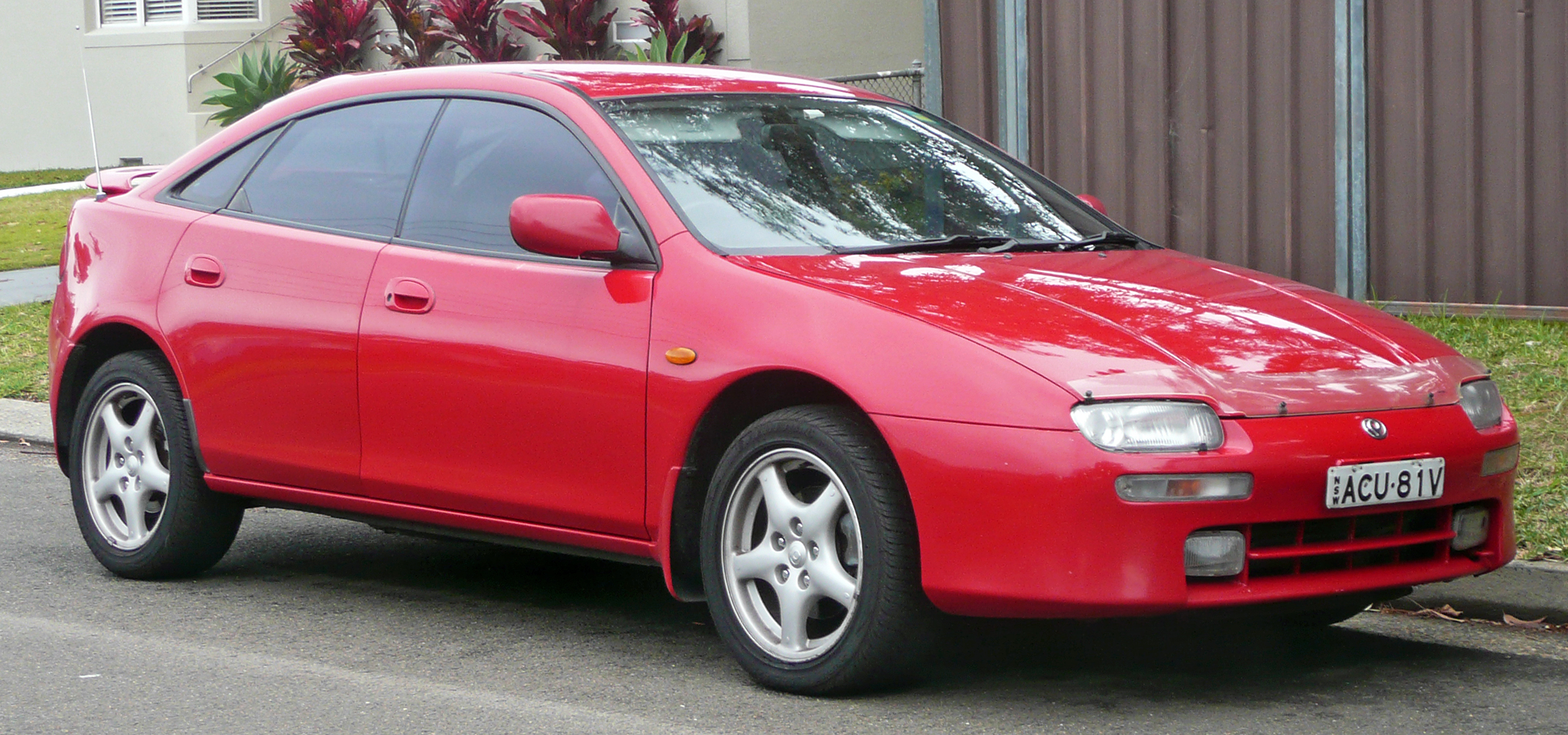 1994 Mazda 323 (BA) Astina 5-door hatchback. Photographed in Cronulla, New South Wales, Australia.